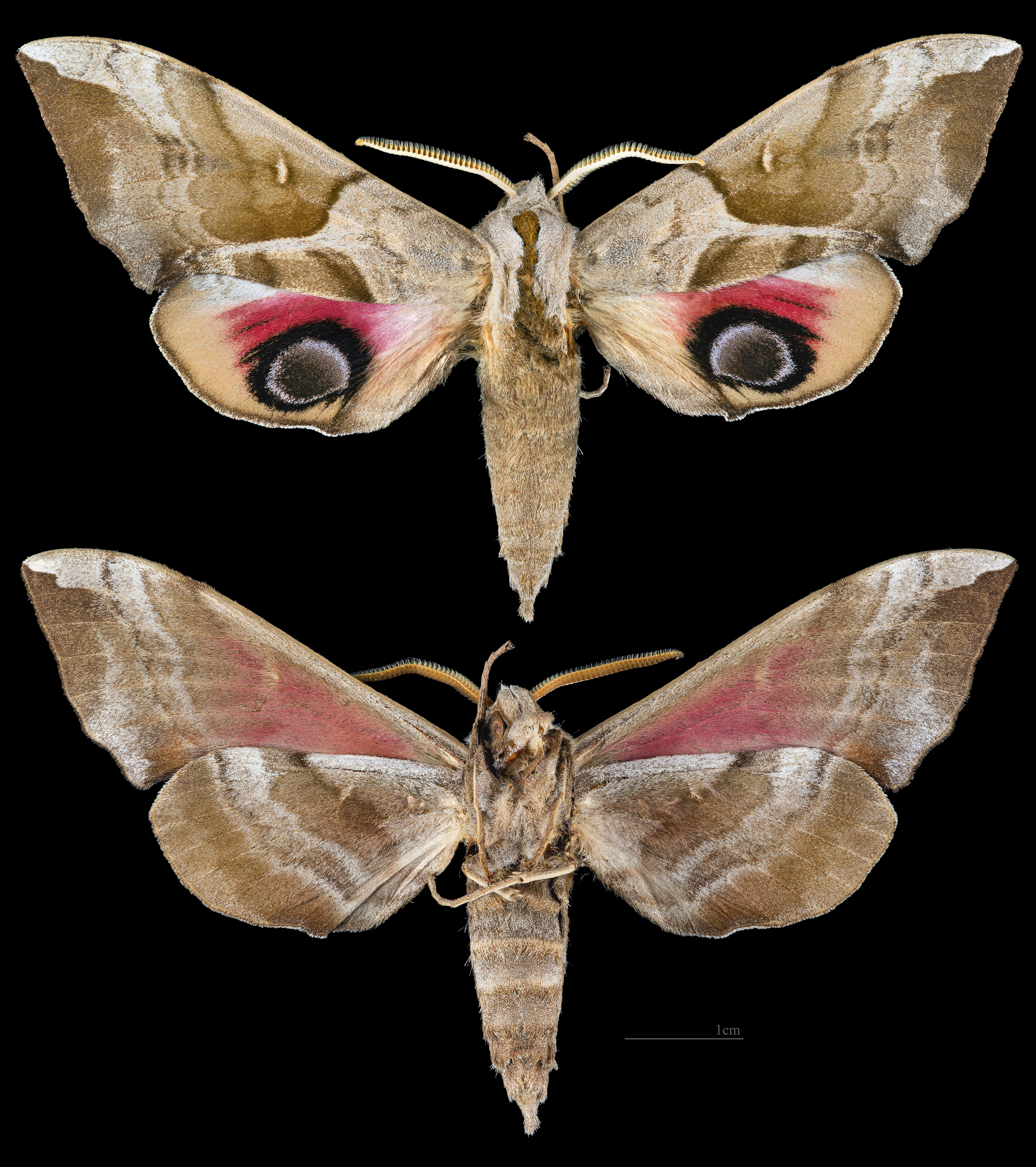 Smerinthus planus - Two views of same specimen Collection of the Mathematician Laurent Schwartz